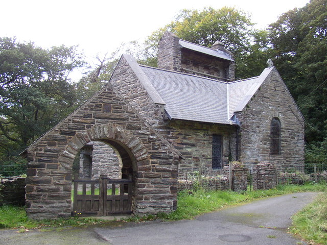 St Philip's church, Caerdeon, near Bontddu, Gwynedd. The church has four bells in a row, all rung simultaneously by a pulley on ground level at rear of church, with cables rotating a beam connected to each bell. The mechanism is just visible.